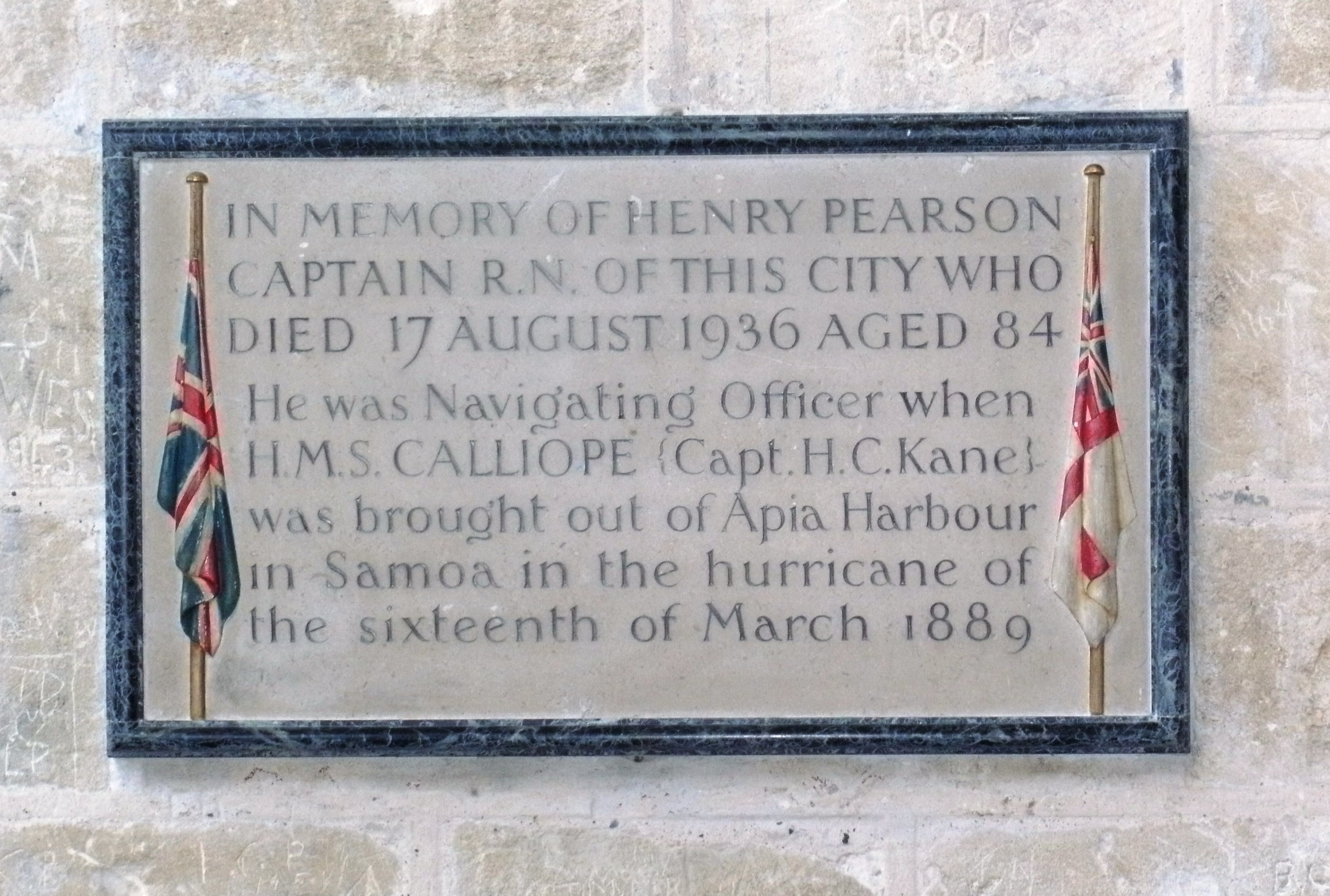 Memorial tablet to Captain Henry Person (died 1936) in Winchester Cathedral.Location: North Transept.